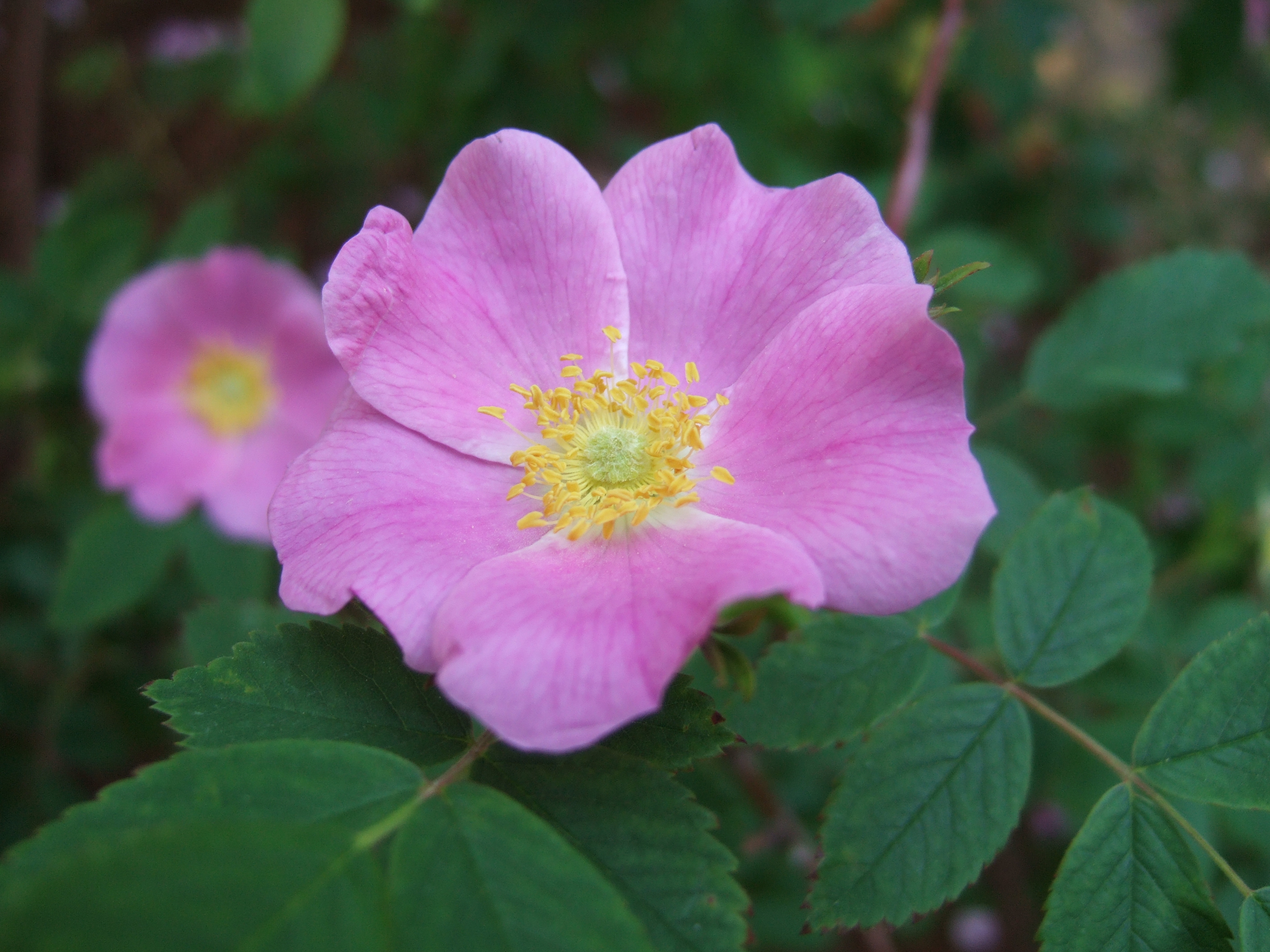 Rosa acicularis nipponensis, R. nipponensis Crepin